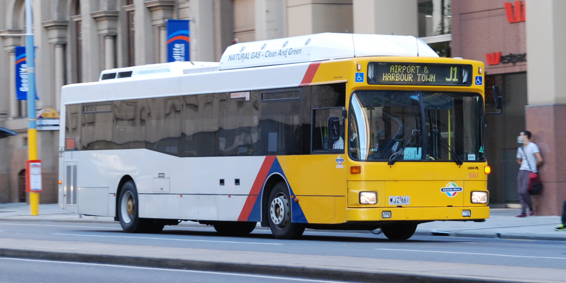 Torrens Transit Australian Bus Manufacturing 160 bodied MAN NL202 CNG (Fleet no. 1664) of route J1 (to Glenelg Interchange) on Currie Street.